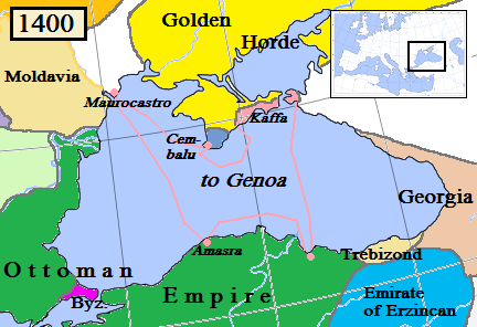 Genoan possessions in the Black Sea, AD 1400. (Partially based on Euratlas map of Europe, 1400.)